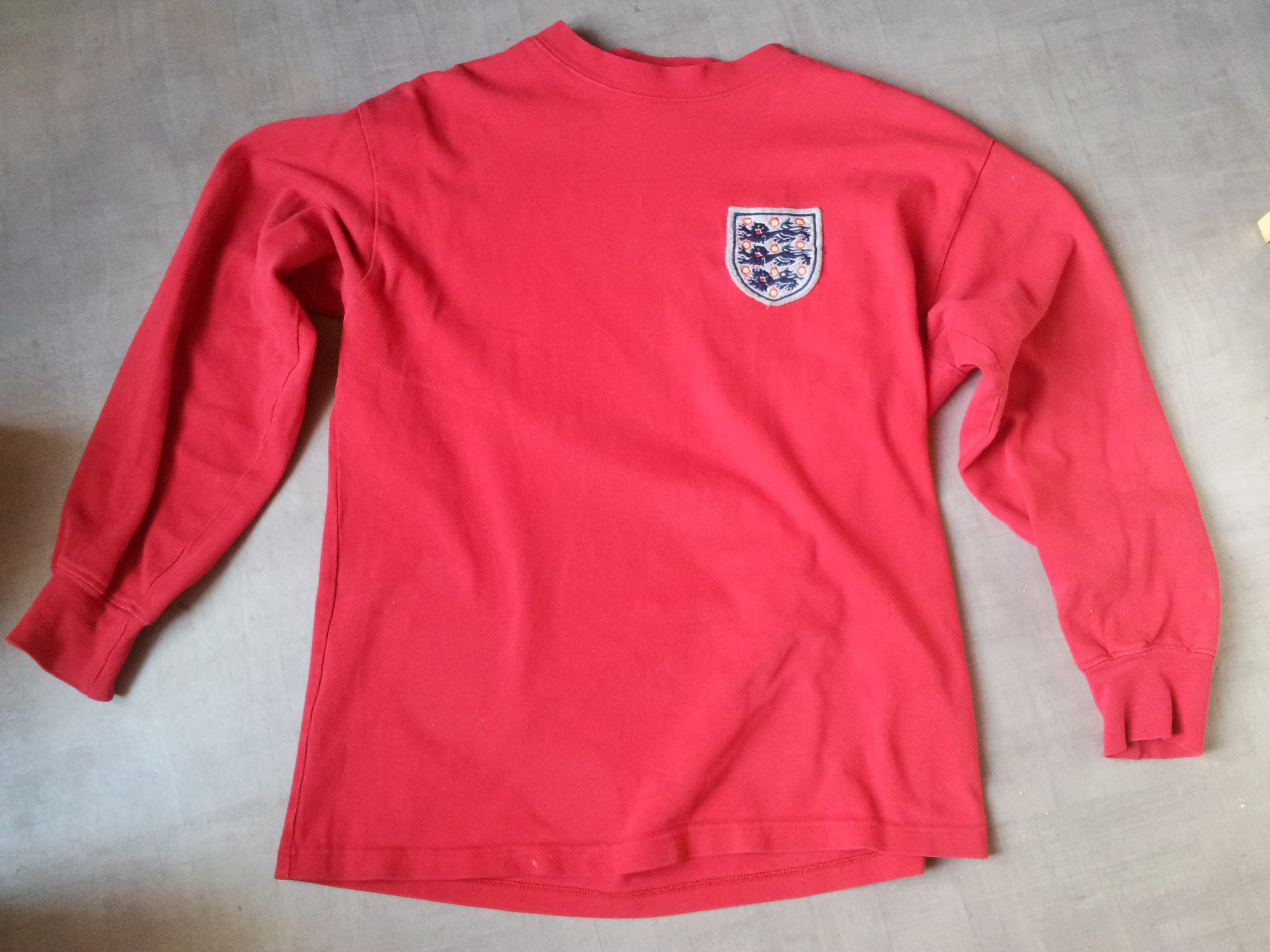 england 1966 football shirt replica